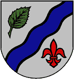 Coat of arms of Irrel)